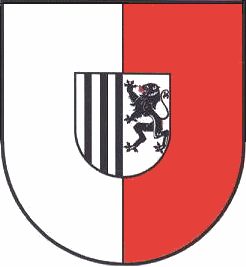 Coat of Arms of Wutha-Farnroda First upload in de-wp: Roy1980 (10:19, 16. Nov. 2005)